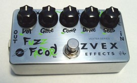 Photo taken by Tom S. on Christmas Day, a few hours after unwrapping it